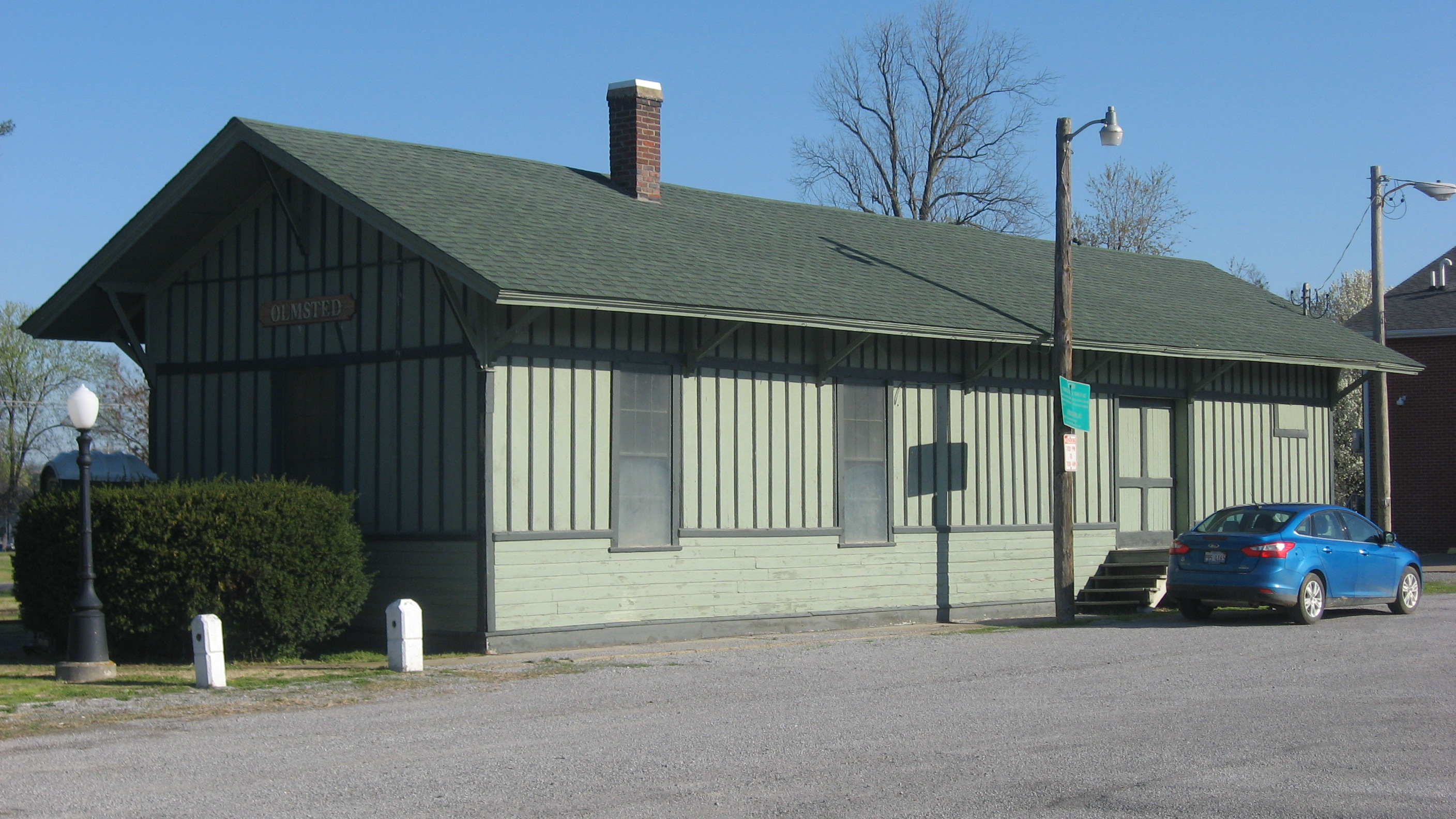 Front and western end of the Olmstead Depot, located on Front Street between Cedar and Caledonia Streets in Olmsted, Illinois, United States. Built in 1872 for the Cairo and Vincennes Railroad, it is listed on the National Register of Historic Places.